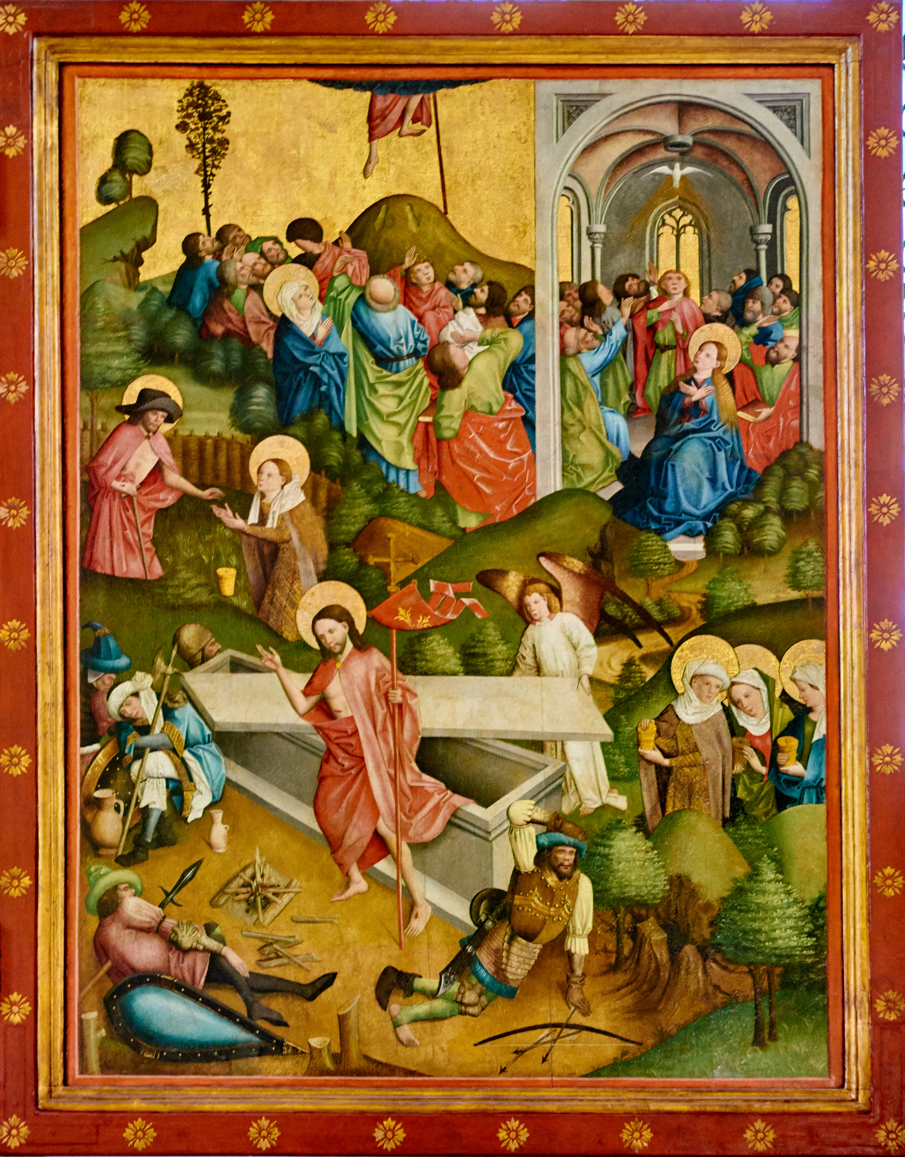 Gothic altar in Schöppingen, North Rhine-Westphalia, Germany. This is a photograph of an architectural monument.